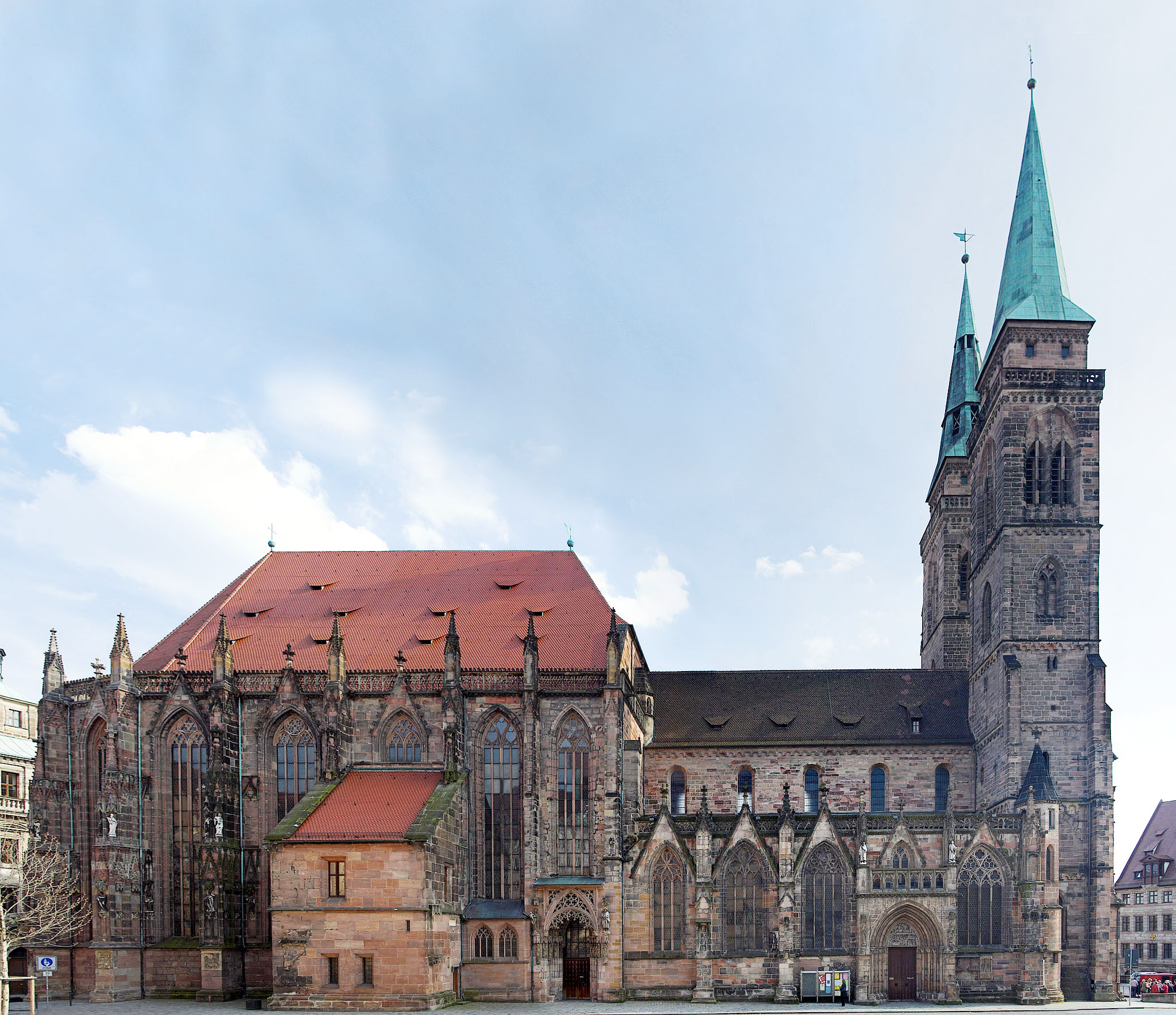 Picture of St. Sebald in Nuremberg in full view from north.